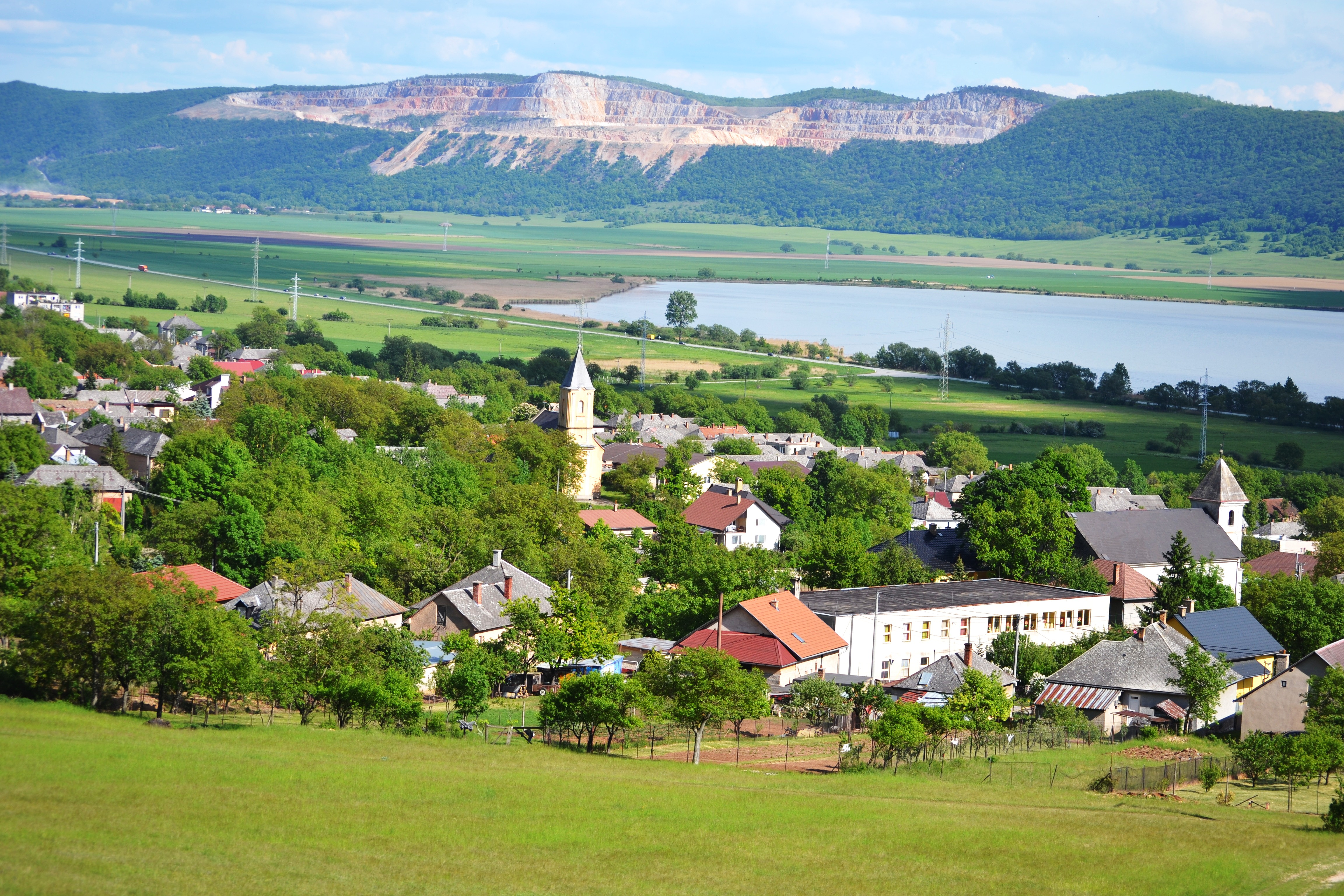 View of the village Hrhov